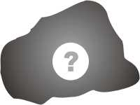 Schema of rock